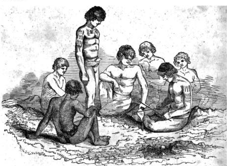 A drawing of Fakaofo, Tokelau islanders in en:1841. Charles Wilkes is the probable artist.